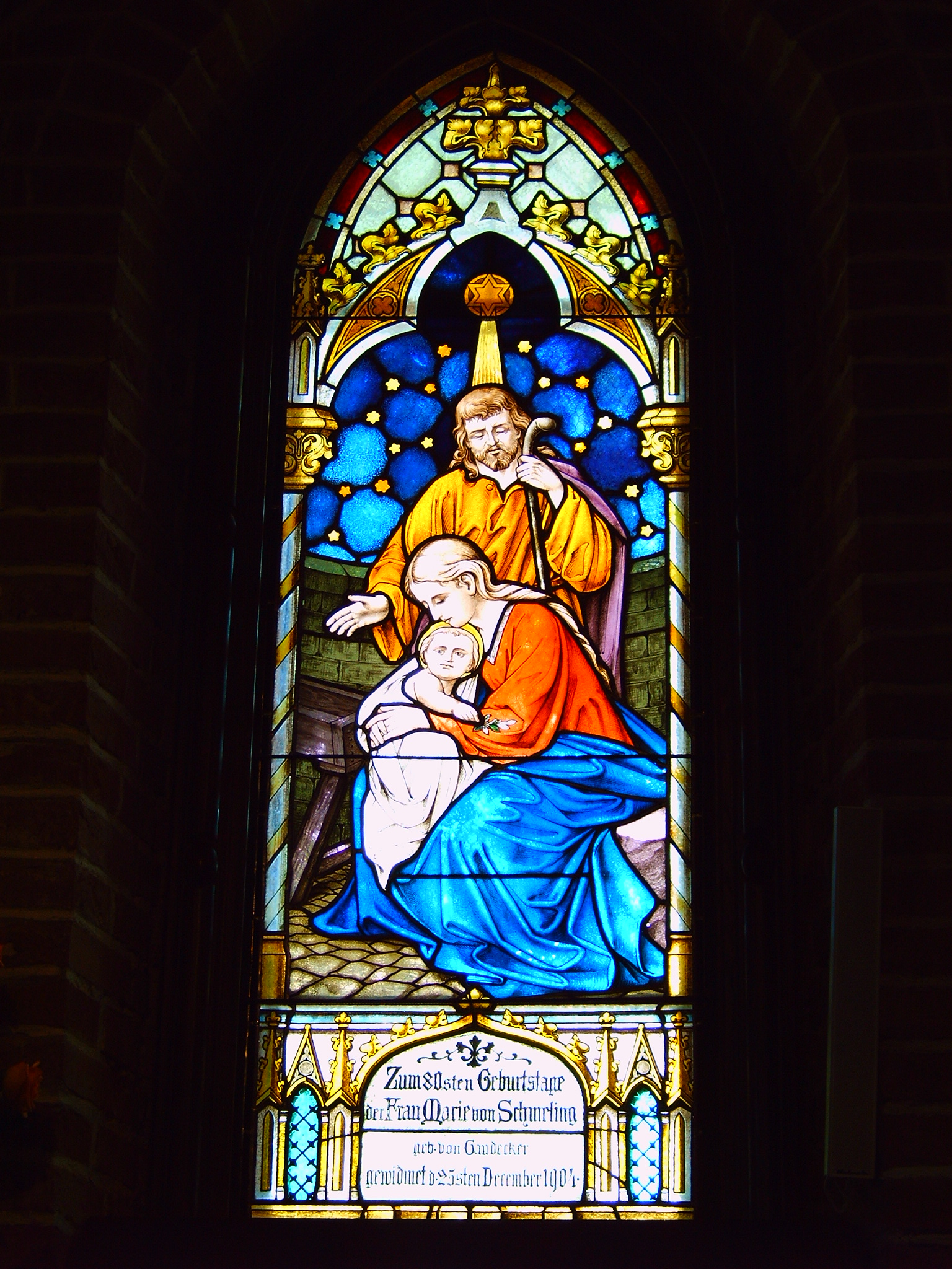 Poland, Mielno, church, stained glass - The Holy Family